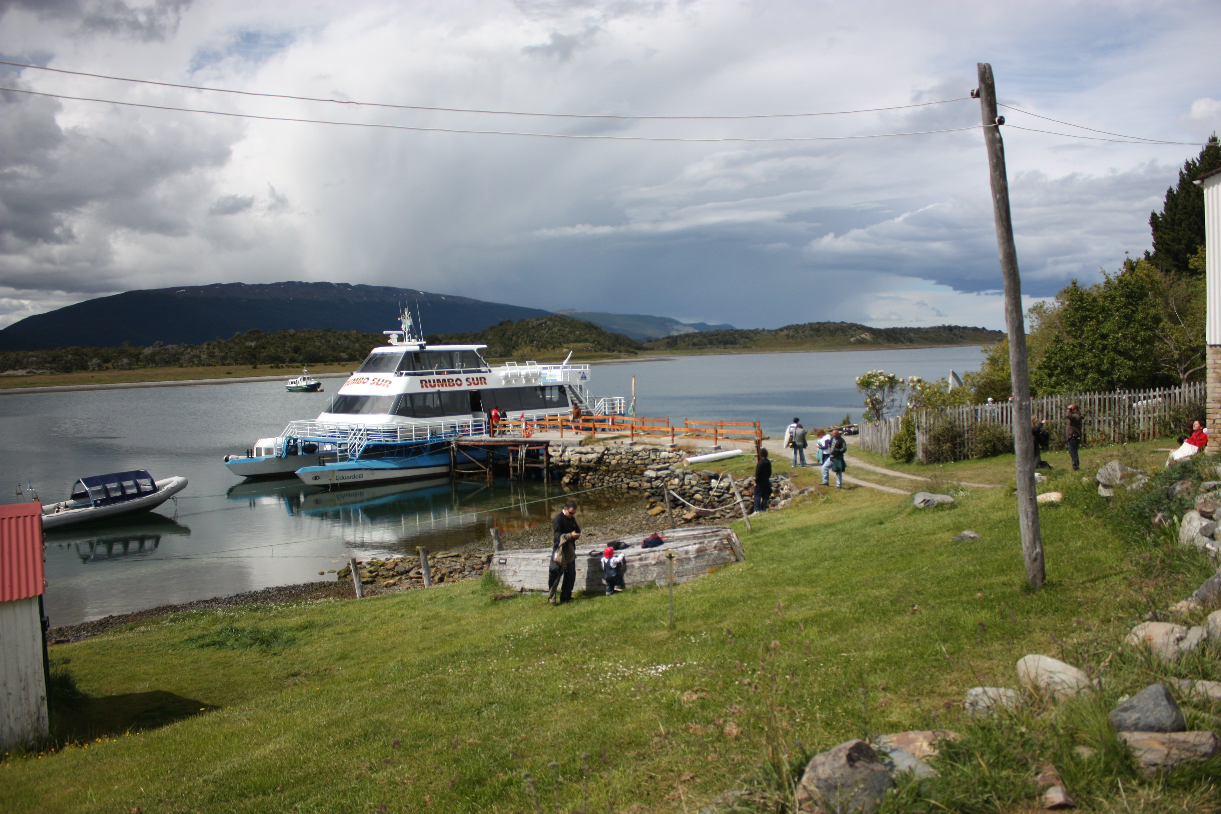 Estancia Harberton towards Beagle Channel